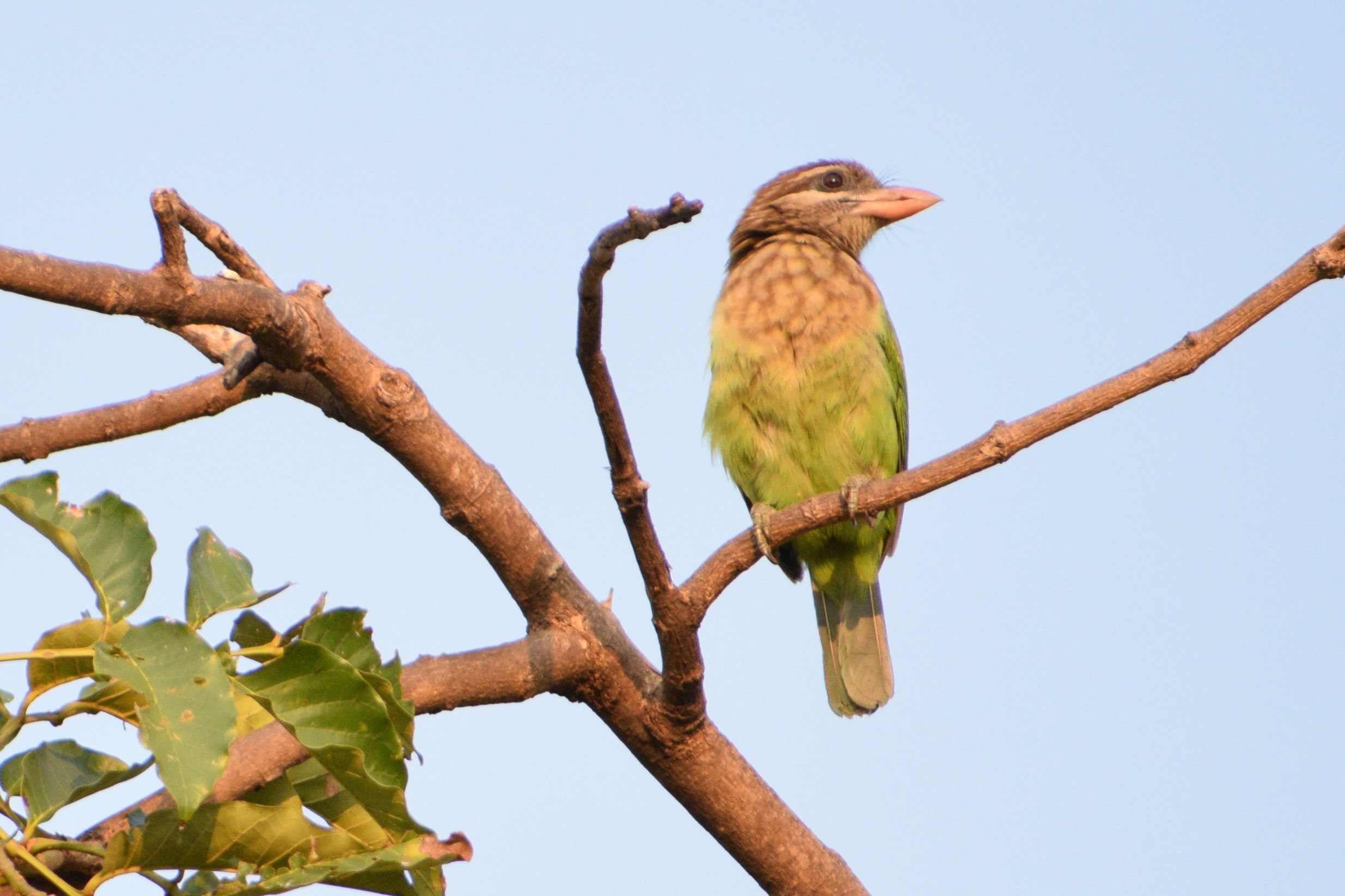 A White Cheeked Barbet in Bangalore, India